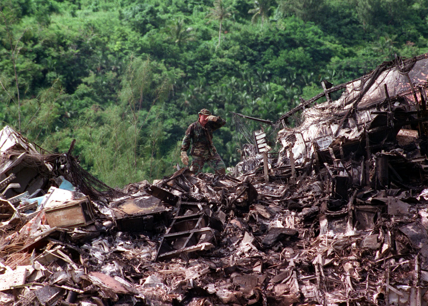 U.S. Navy, Air Force, Coast Guard, local civilian disaster teams and National Transportation Safety Board (NTSB) officials continue crash and salvage operations at the KAL Flight 801 crash site in Guam.